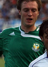 Denis Evsikov in action for FC Tom